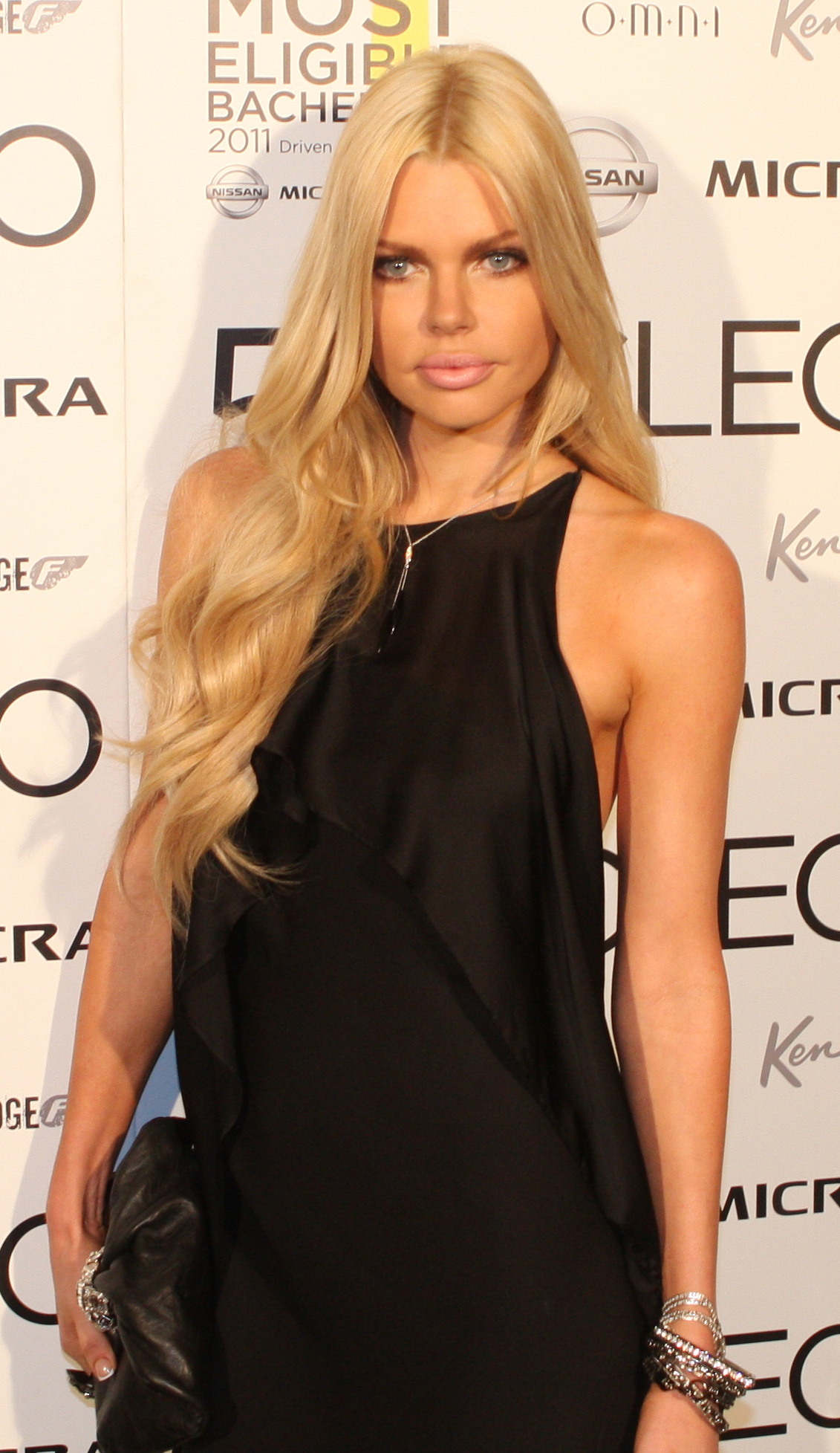 Sophie Monk at the 2011 Cleo Bachelor of the Year in Sydney, Australia.